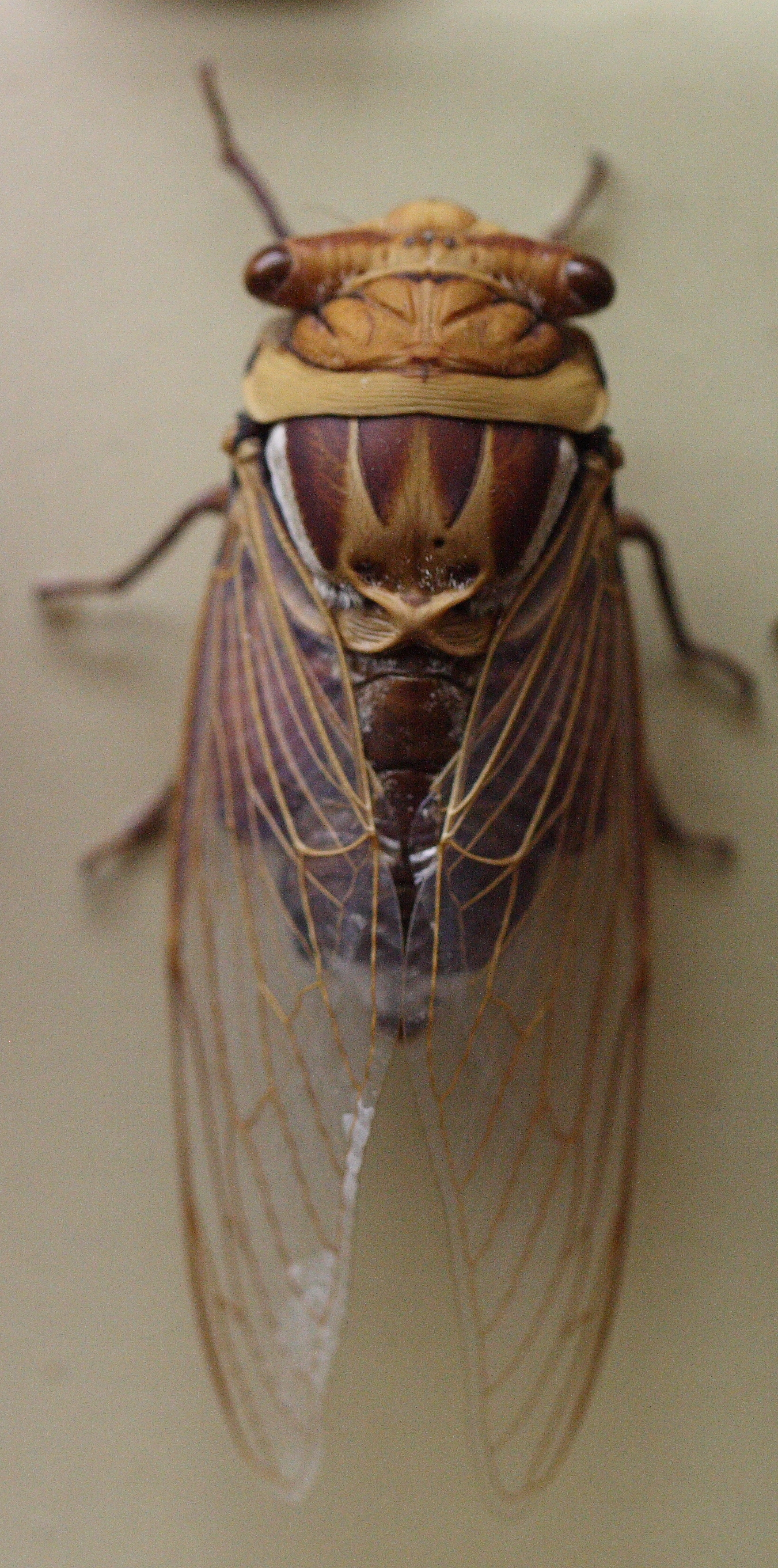 Specimen in the Australian Museum cicada display.